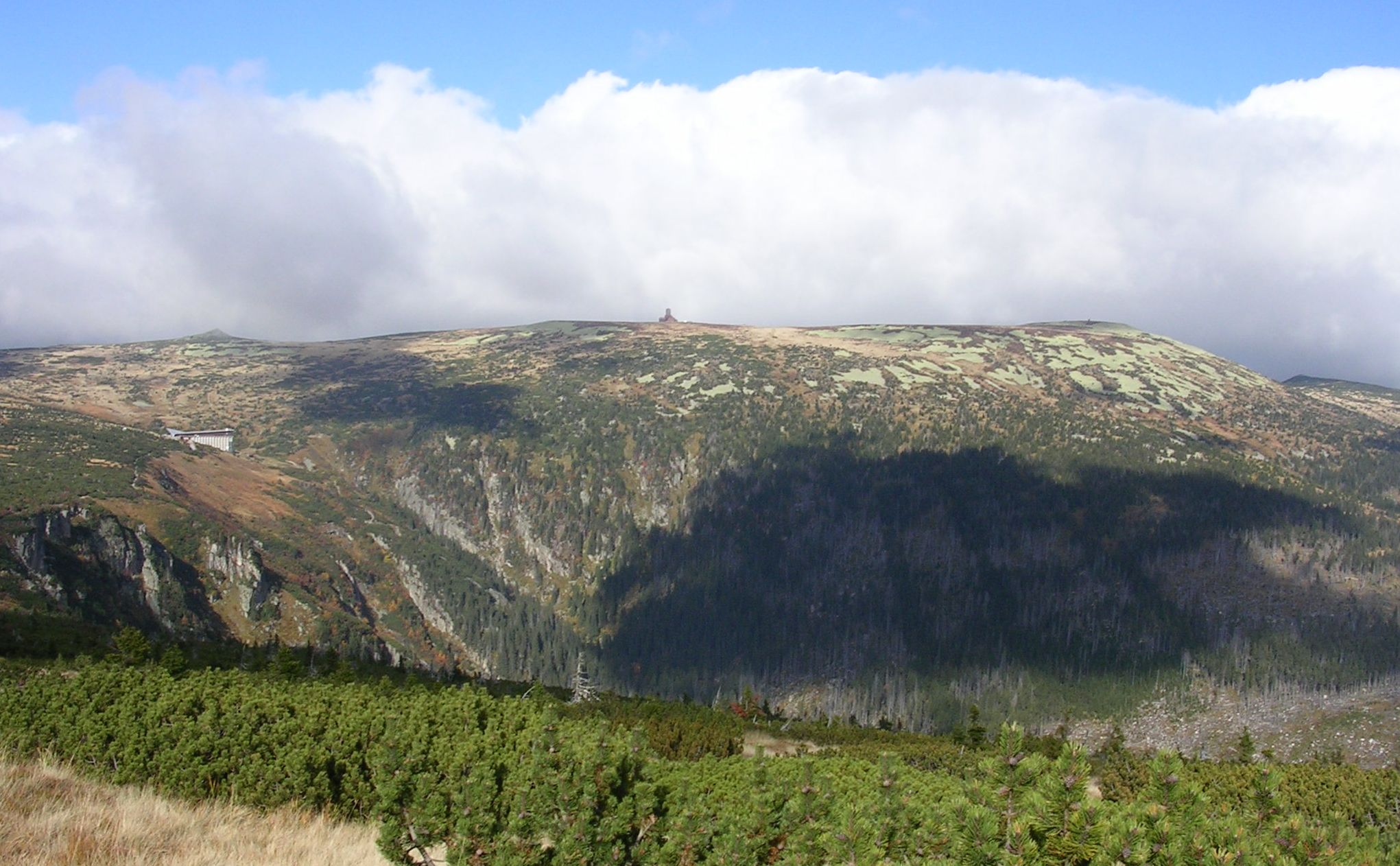 A view of Krkonoše Mountains from a trail near Vrbatova bouda, the Czech Republic.